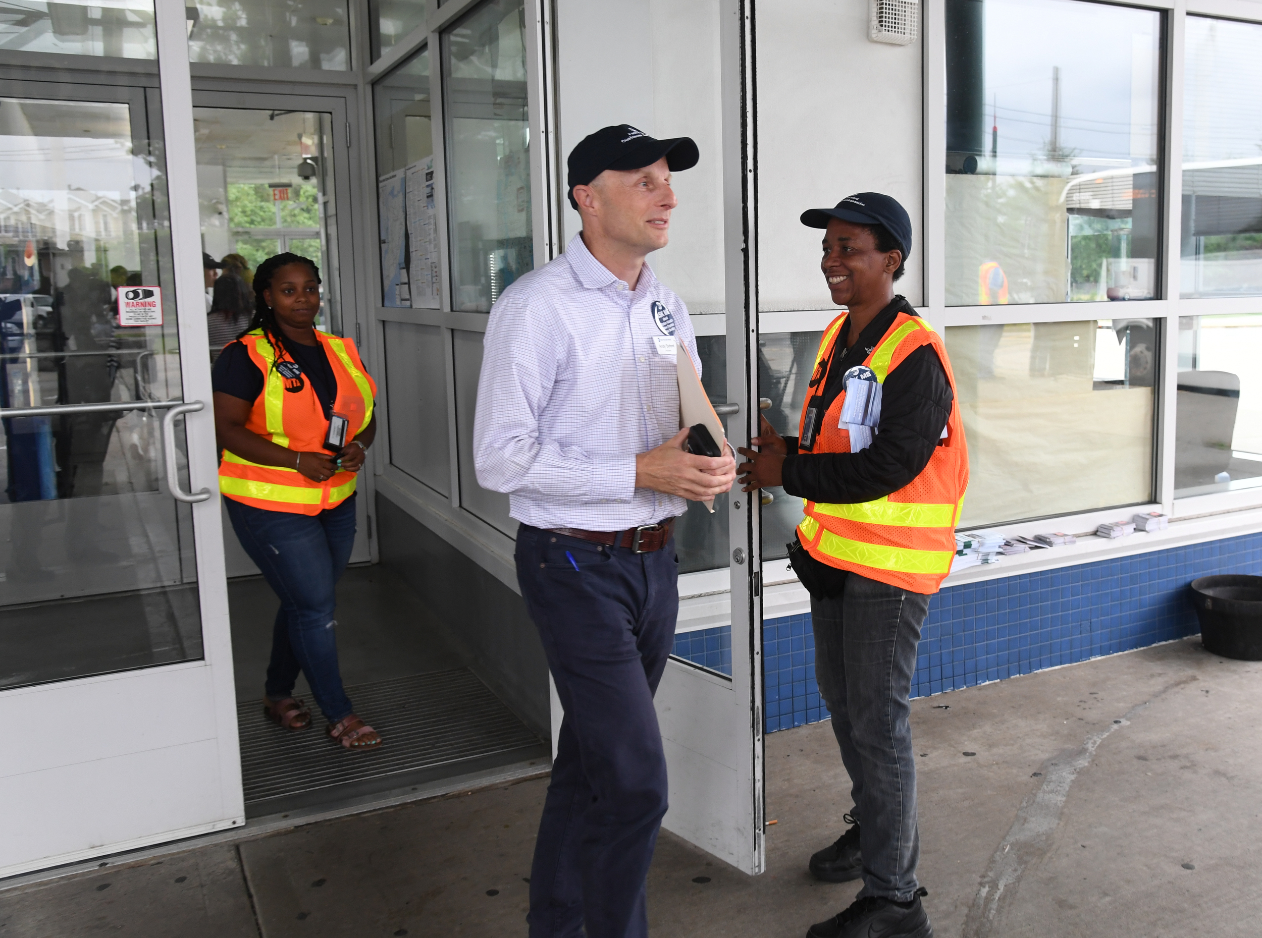 On Sunday, August 19, 2018, MTA New York City Transit implemented a newly redesigned express bus network on Staten Island. Transit President Andy Byford and senior Transit leadership were on site on Sunday to monitor the launch in person and to talk to personnel and customers. Photo: Marc A. Hermann / MTA New York City Transit